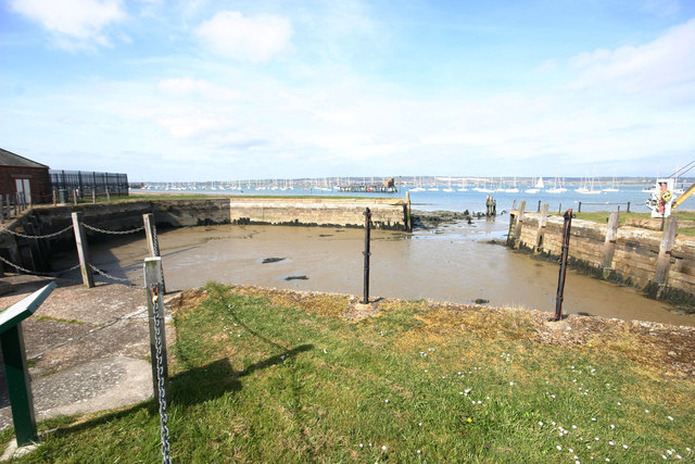 Camber Dock & Basin, Priddy's Hard, Gosport